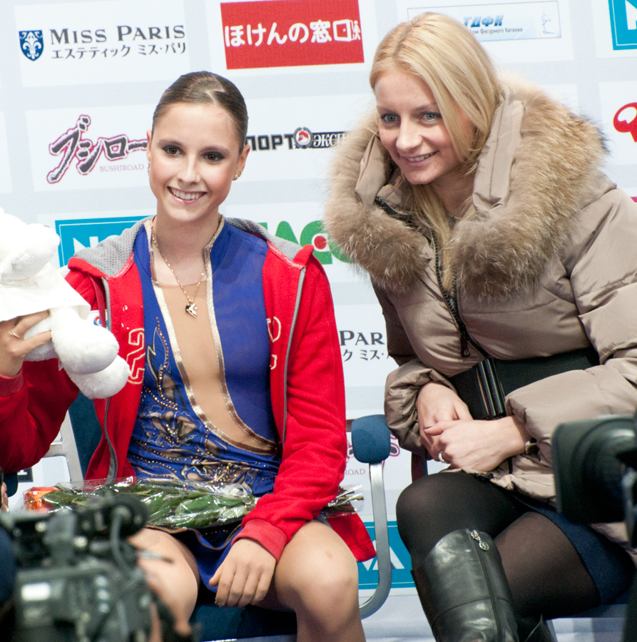 2011 Cup of Russia, free skating.